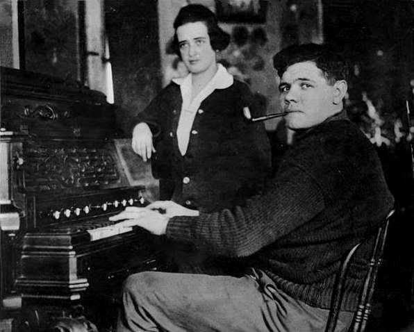 American baseball player Babe Ruth smokes a pipe as he plays a piano while his wife, Helen Ruth (nee Woodford, 1897 - 1929) stands next to him.